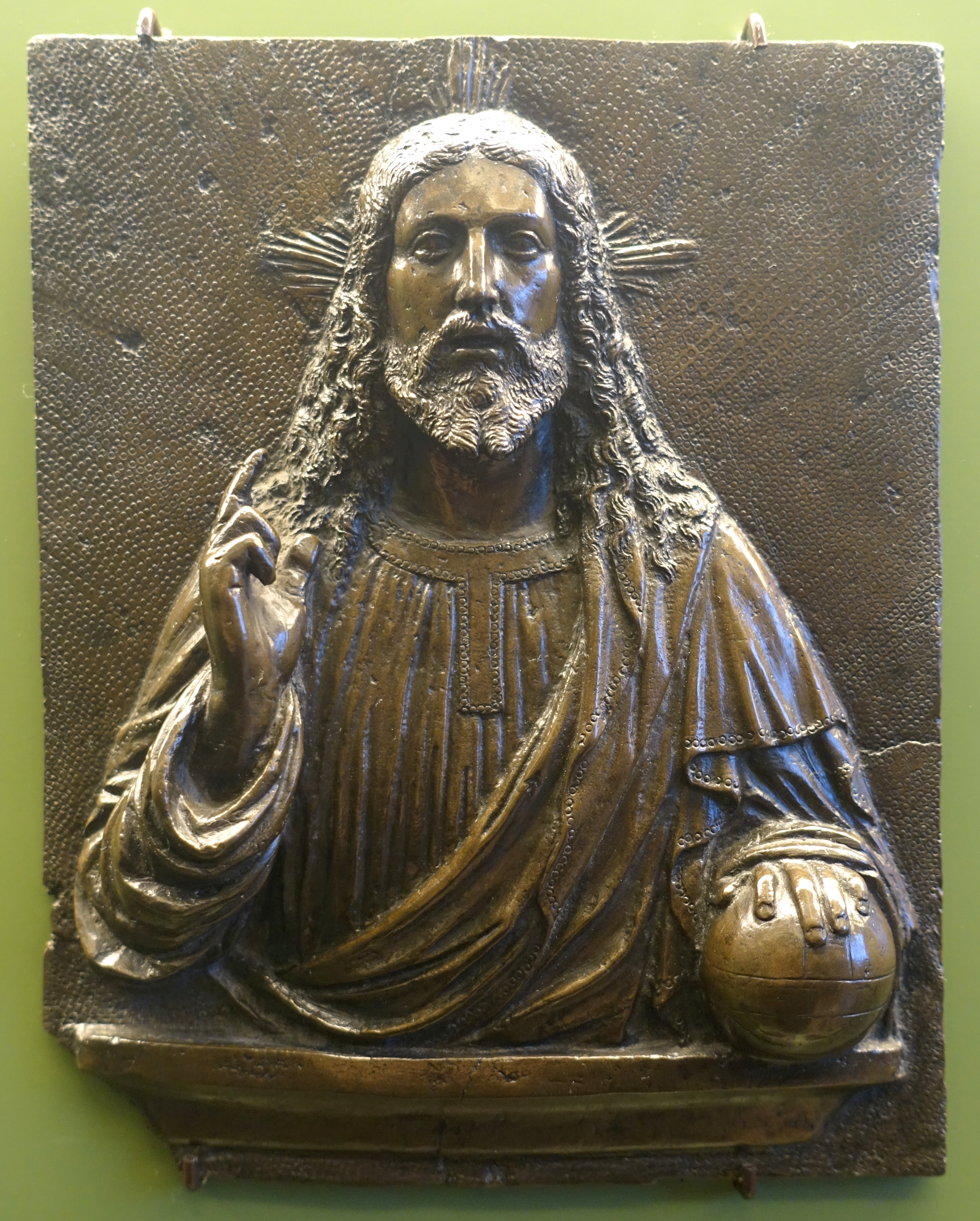 Exhibit in the Bode-Museum, Berlin, Germany. This work is in the public domain because the artist died more than 100 years ago.